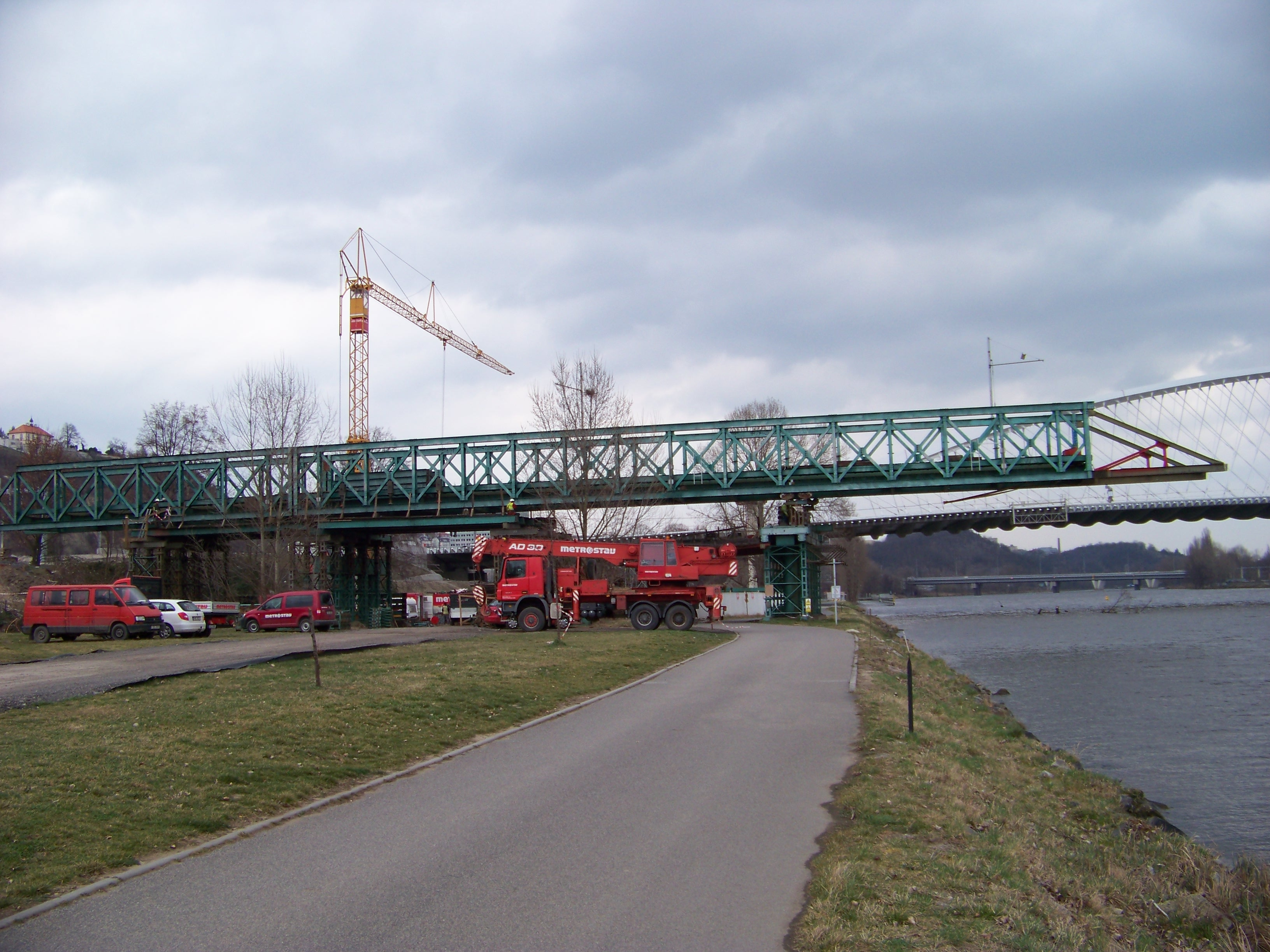 Prague-Troja, Czech Republic. Vodácká street, demolition of Troja tram bridge and construction of Trojský most.